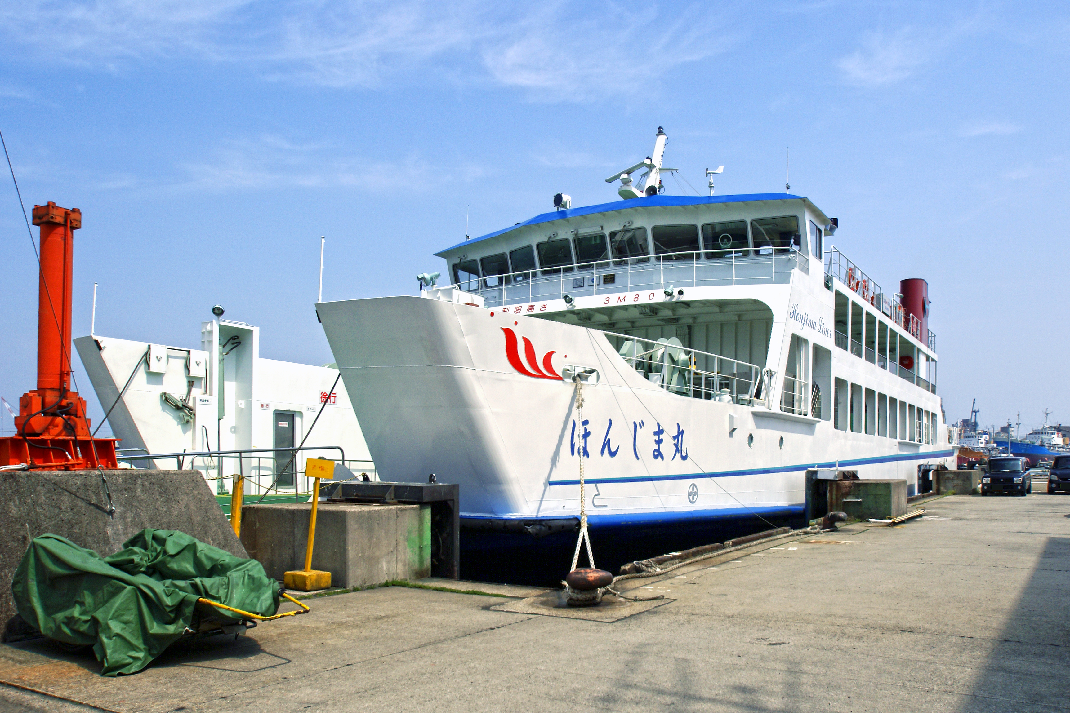 At Marugame Port in Marugame, Kagawa prefecture, Japan